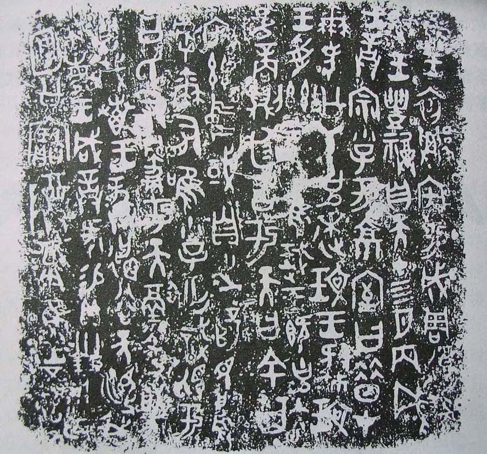 He zun is the oldest artifact that inscribed the word "Middle Kingdom/China (中國)" in the container. Shaughnessy, Edward L. (1997) "Western Zhou bronze inscriptions" in Shaughnessy, Edward L. , ed. New Sources of Early Chinese History: An Introduction to the Reading of Inscriptions and Manuscripts, pp. 57–84 ISBN: 978-1-55729-058-8. pp. 77–79.